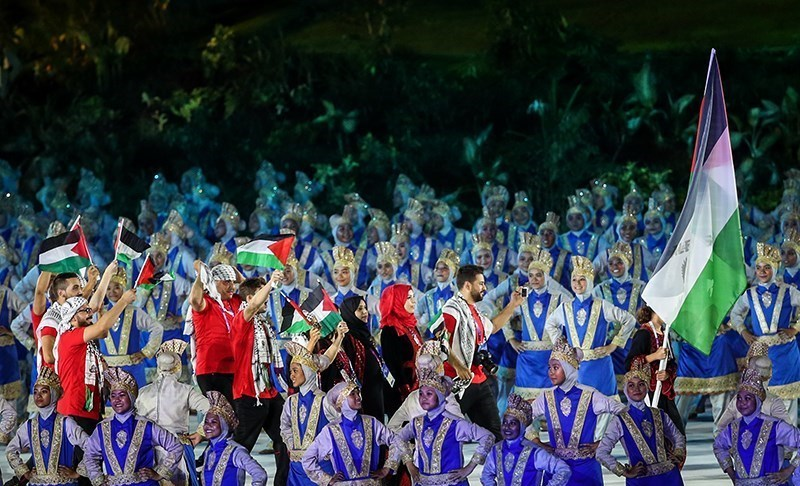 2018 Asian Games opening ceremony